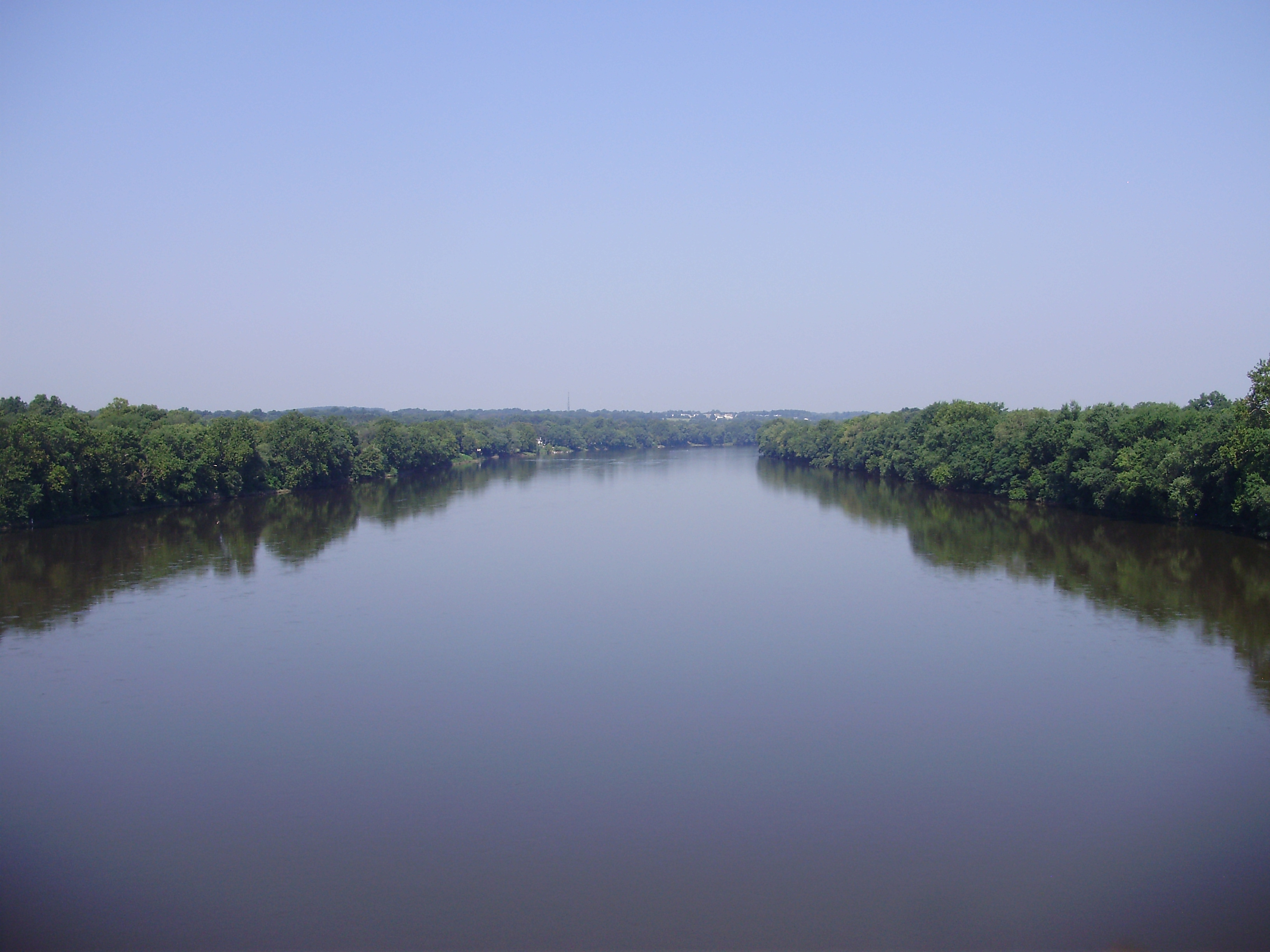 View north up the Delaware River from the Reading Railroad bridge between Ewing, New Jersey and Lower Makefield, Pennsylvania